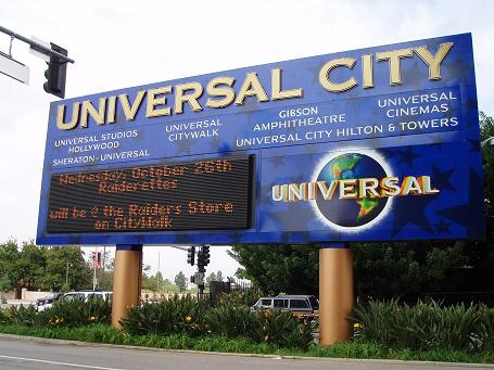 Universal City entrance sign.